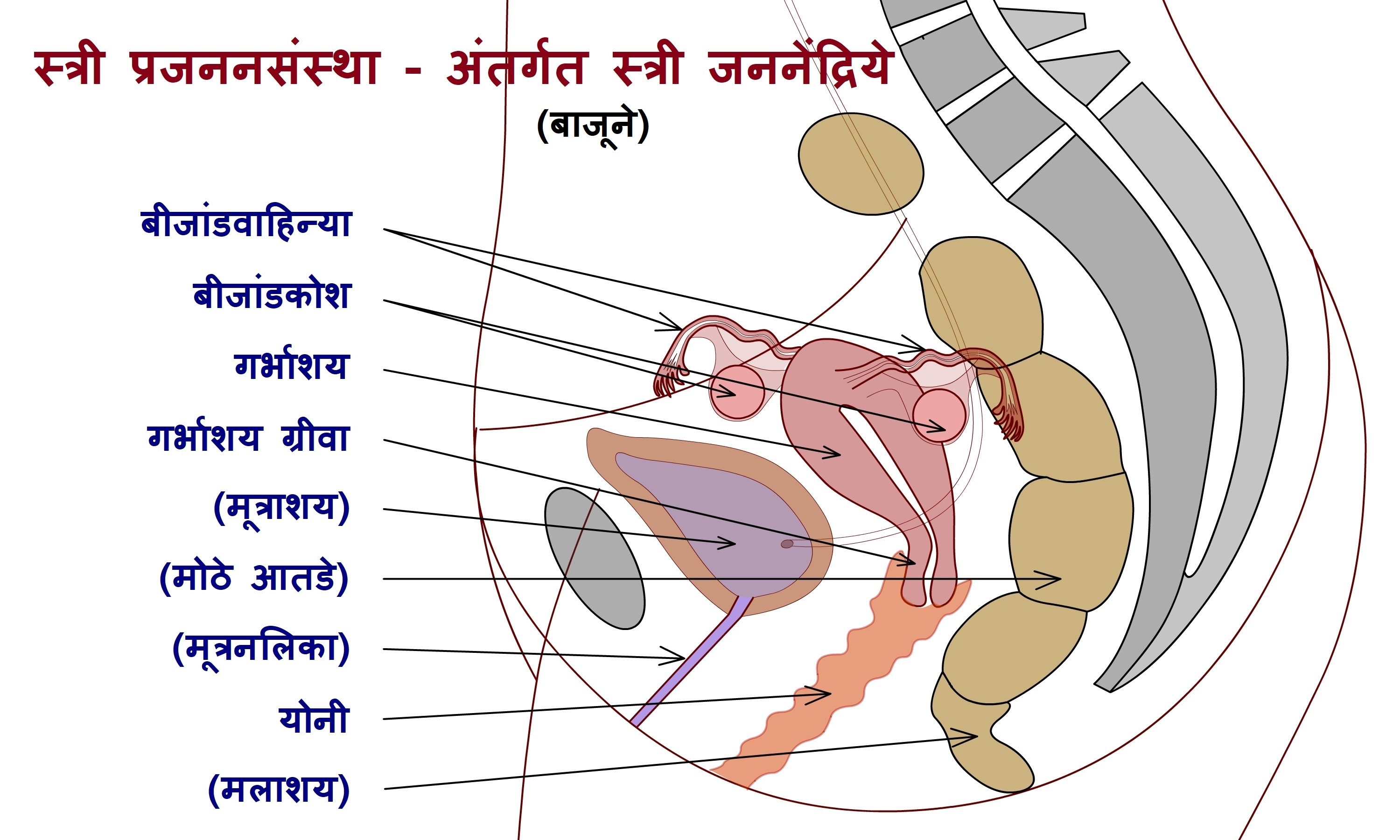 Schematic Figure showing Internal sex organs of Human Female Reproductive System from side